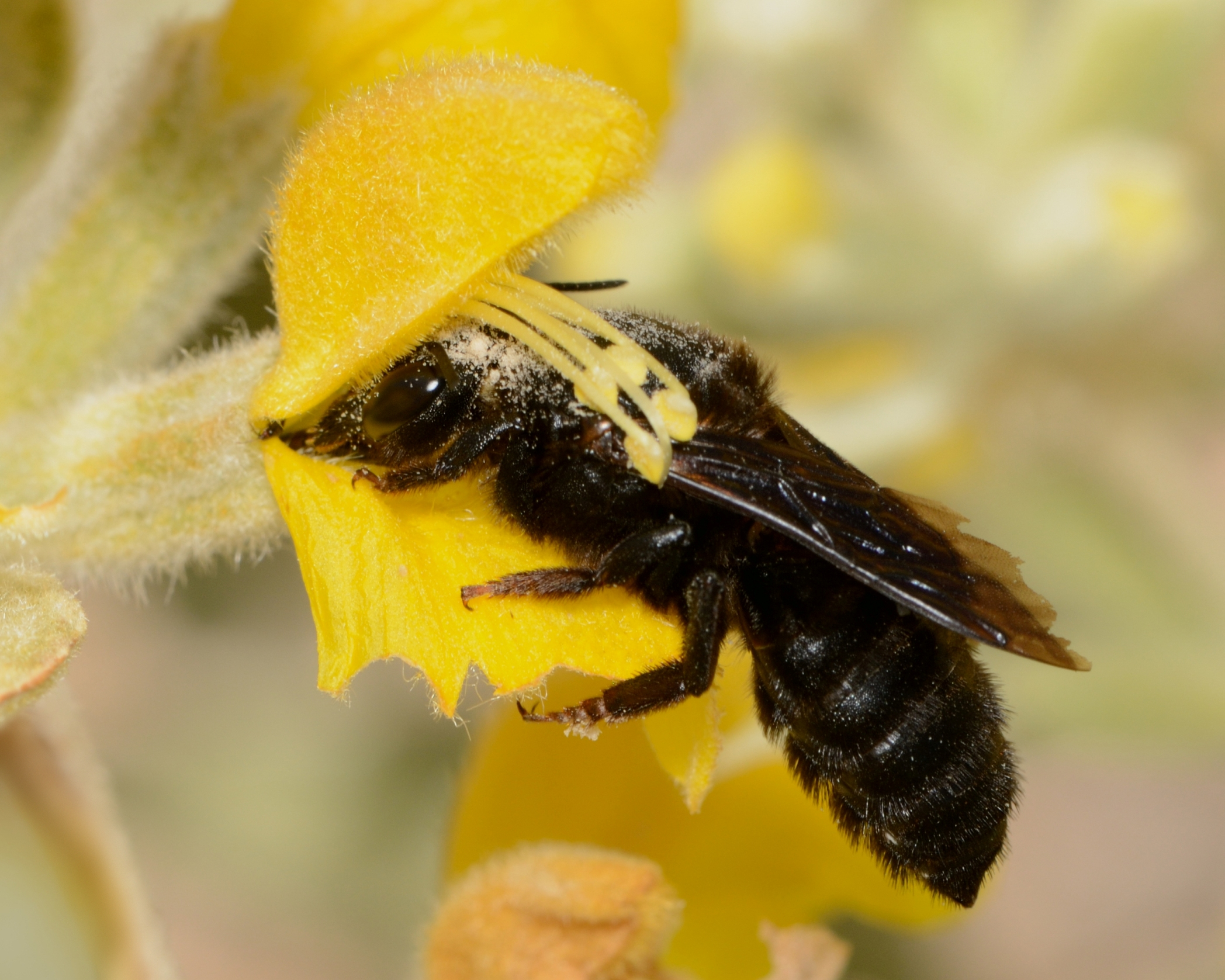 Megachile (Chalicodoma) parietina, female collecting nectar from Phlomis Brachyodon, Lahav Hills, Northern Negev, Israel, April 16 2012.